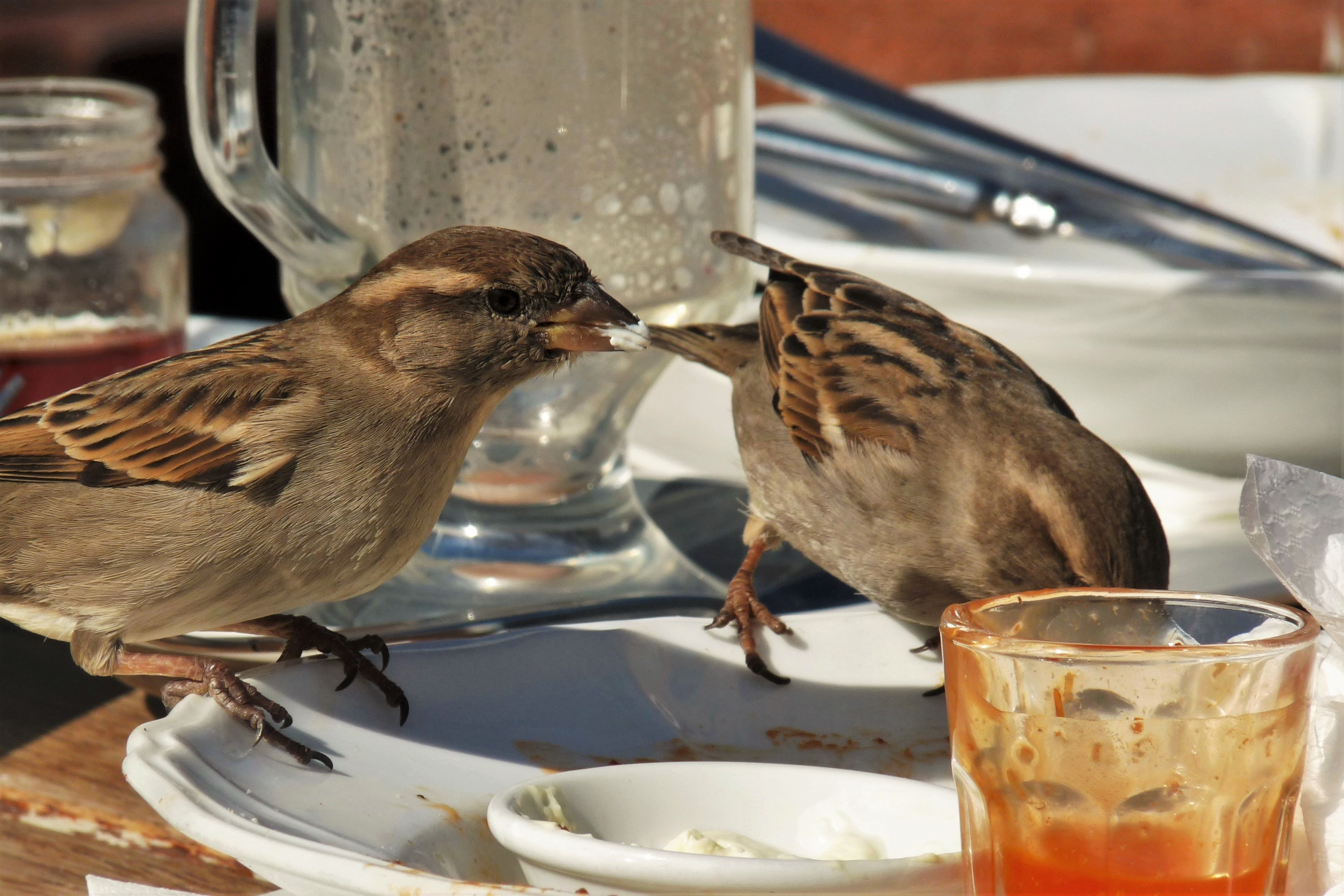 Two House sparrows (Passer domesticus) feeding on leftover cafe food in New Zealand.